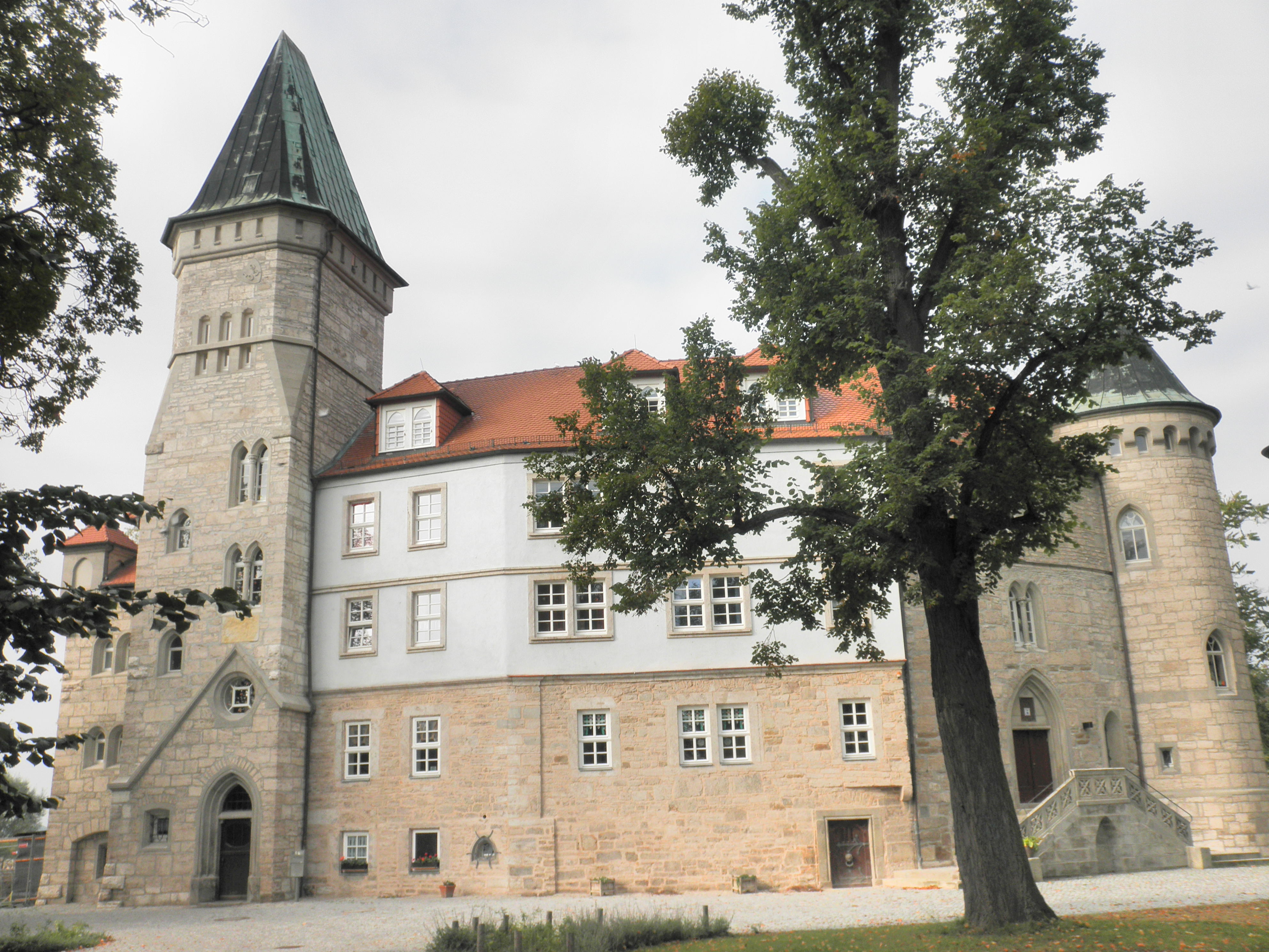 Castle in Altengottern in Thuringia